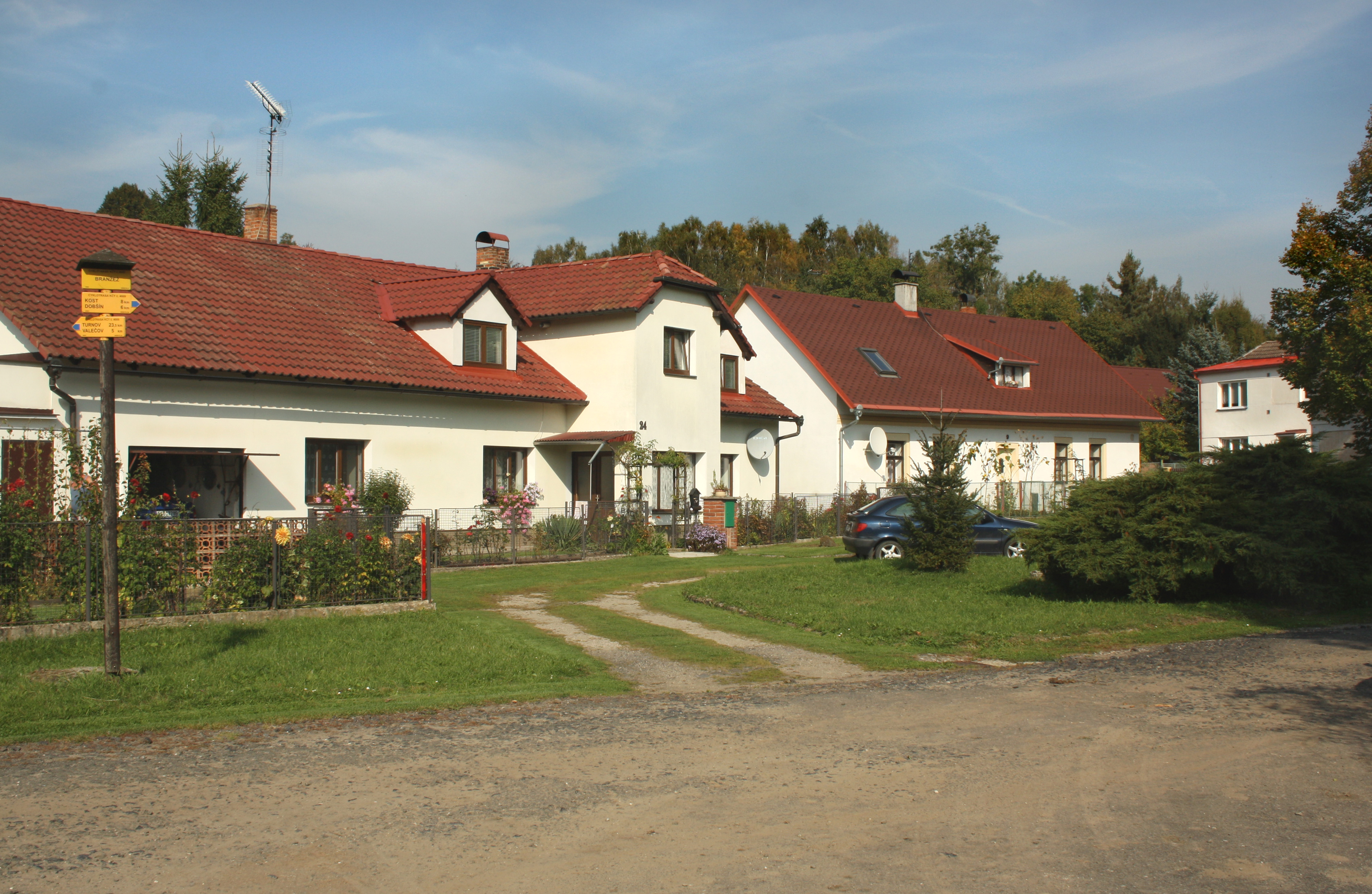 Common in Branžež, Czech Republic